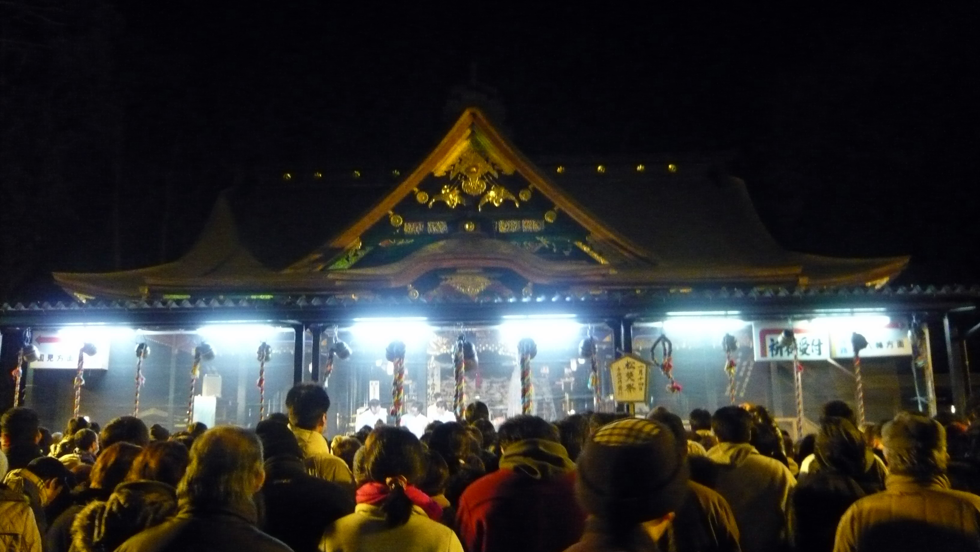 The Osaki Hachimangu Shrine on the Matsutaki Matsuri/Dontosai Festival day.